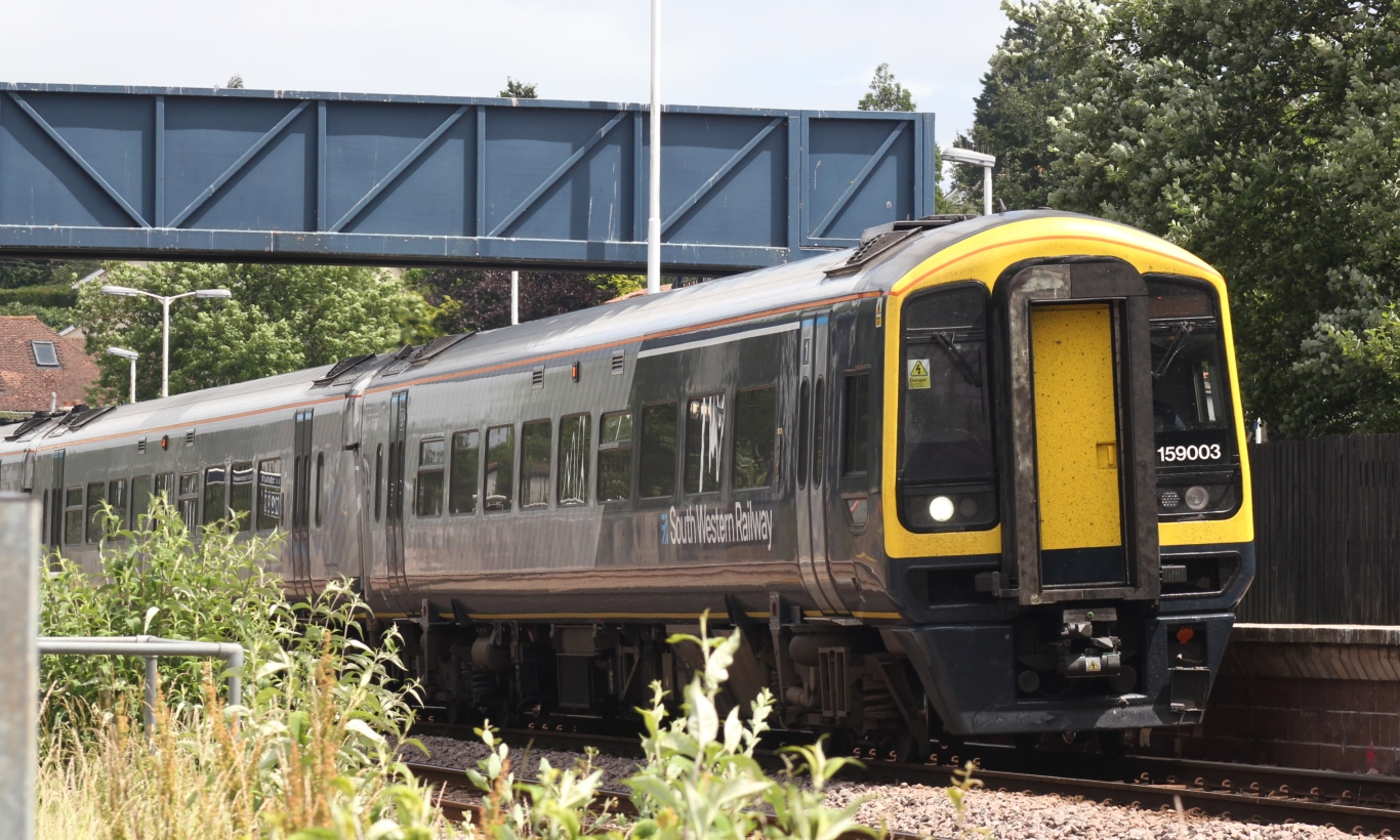 Newly wrapped in South Western Railway vinyls, 159003 calls at Honiton with a London to Exeter service.